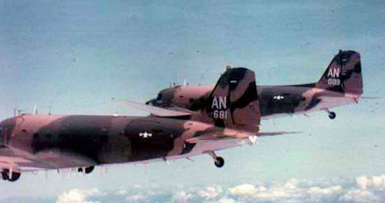 362d Tactical Electronic Warfare Squadron EC-47s Da Nang 1972 Douglas C-47A-90-DL 43-15681 converted to EC-47Q. Disposed of as surplus by 56th Special Operations Wing at Clark AB, Philippines Sept 30, 1974. Douglas C-47B-10-DK 43-49009 also identified, was converted to EC-47P.